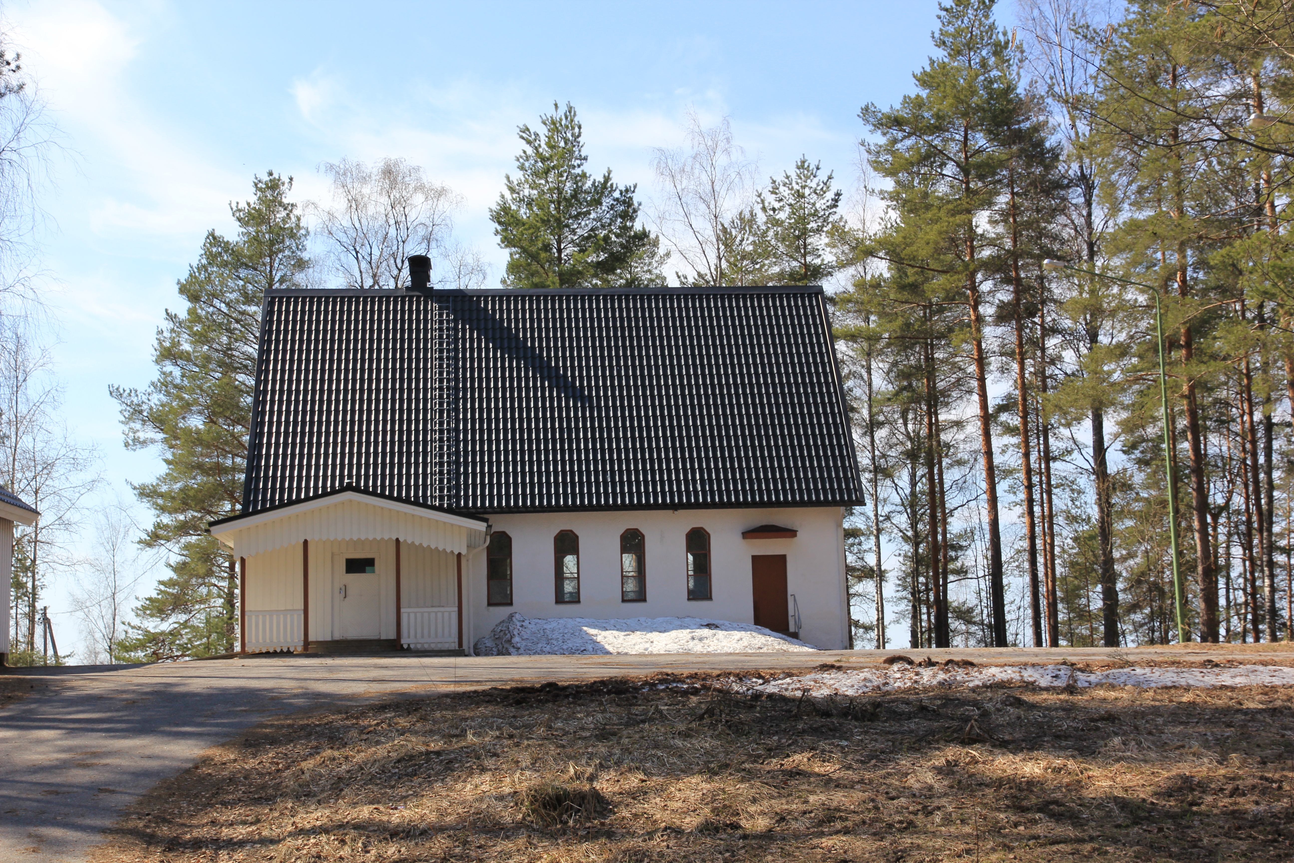 Teppanala prayer house in Imatra.